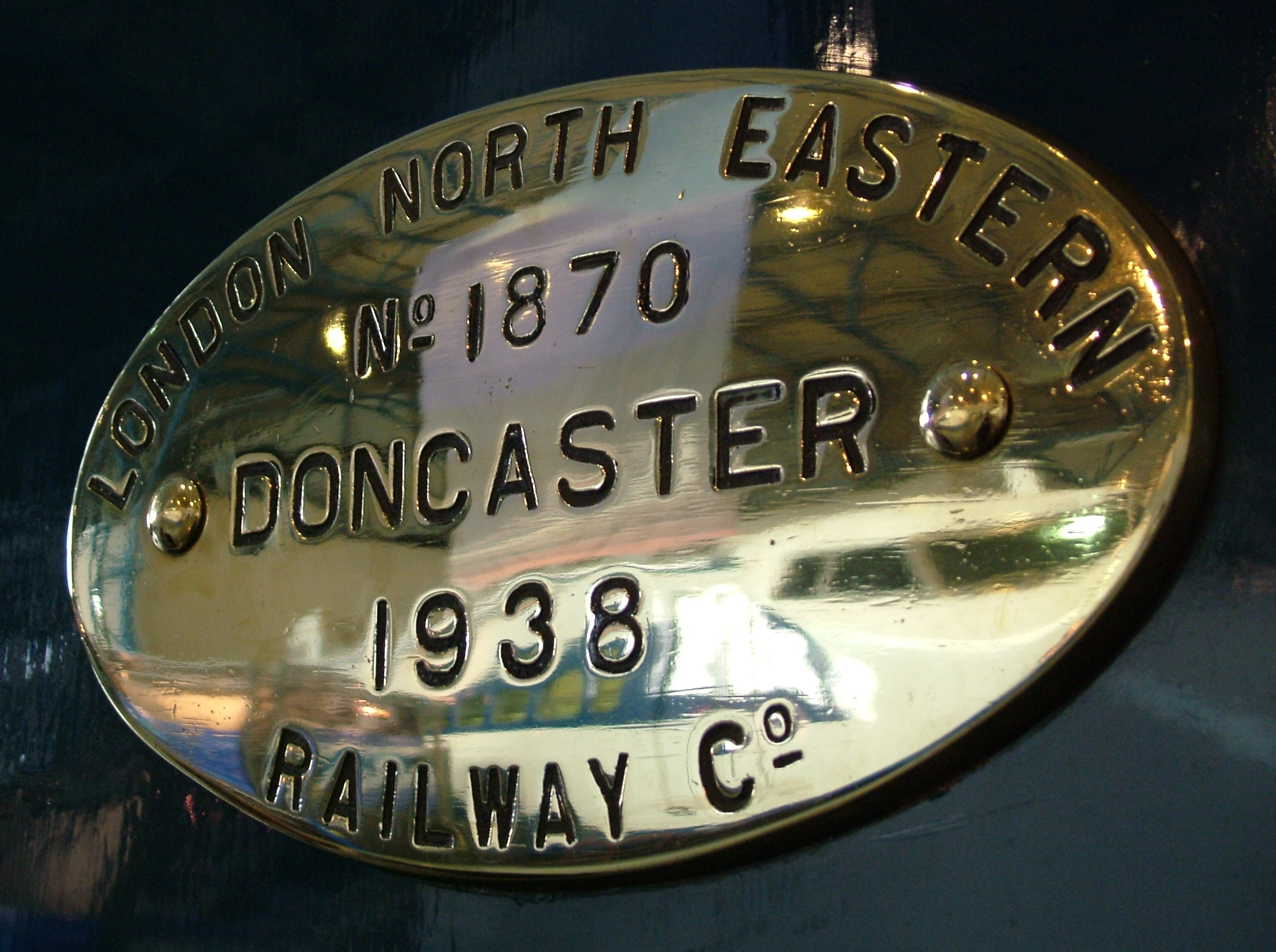 Builder's plate on LNER 4468 Mallard at the National Railway Museum, York